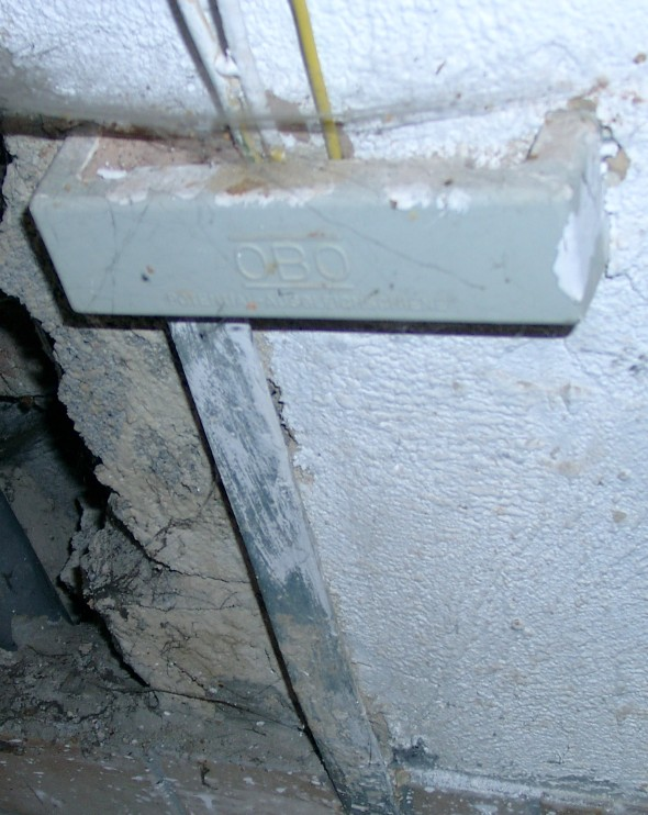 Electrical grounding (earthing) bar attached to foundation